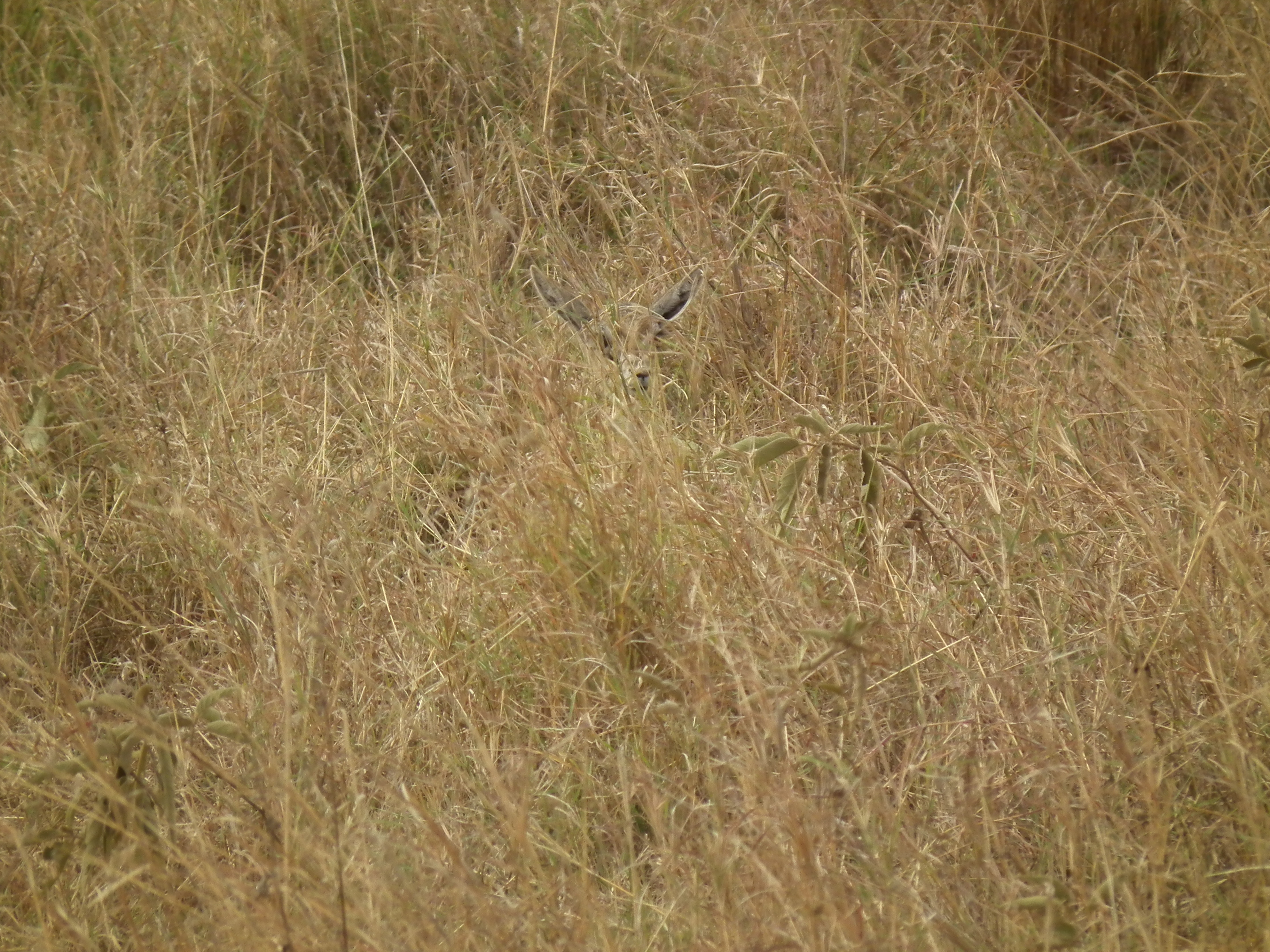 A Thomson's gazelle (Eudorcas thomsonii or Gazella thomsonii) in Tanzania.